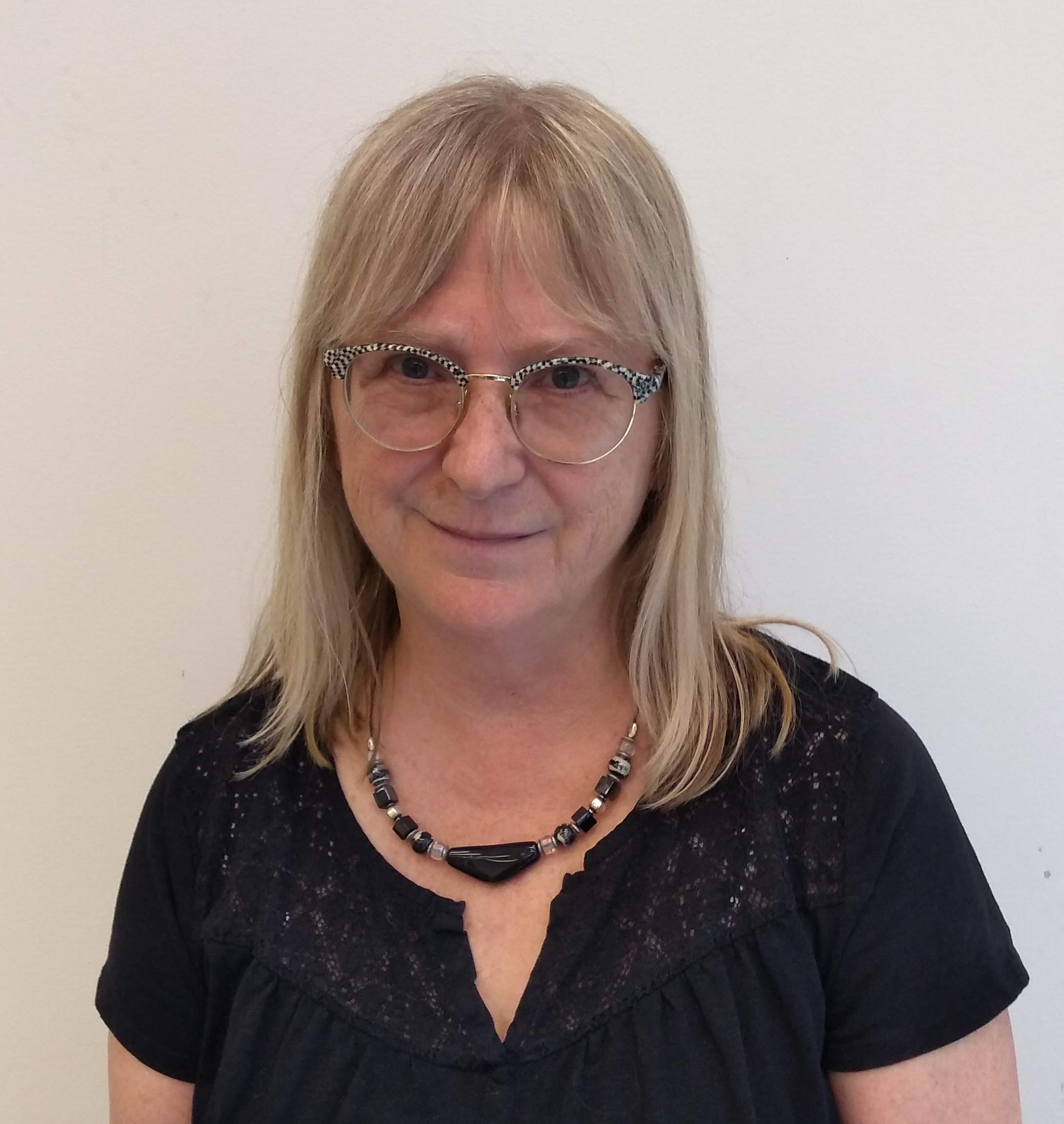 American illustrator Ruth Sanderson appeared at the Boston Museum of Fine Arts in honor of their Kay Nielsen exhibit.